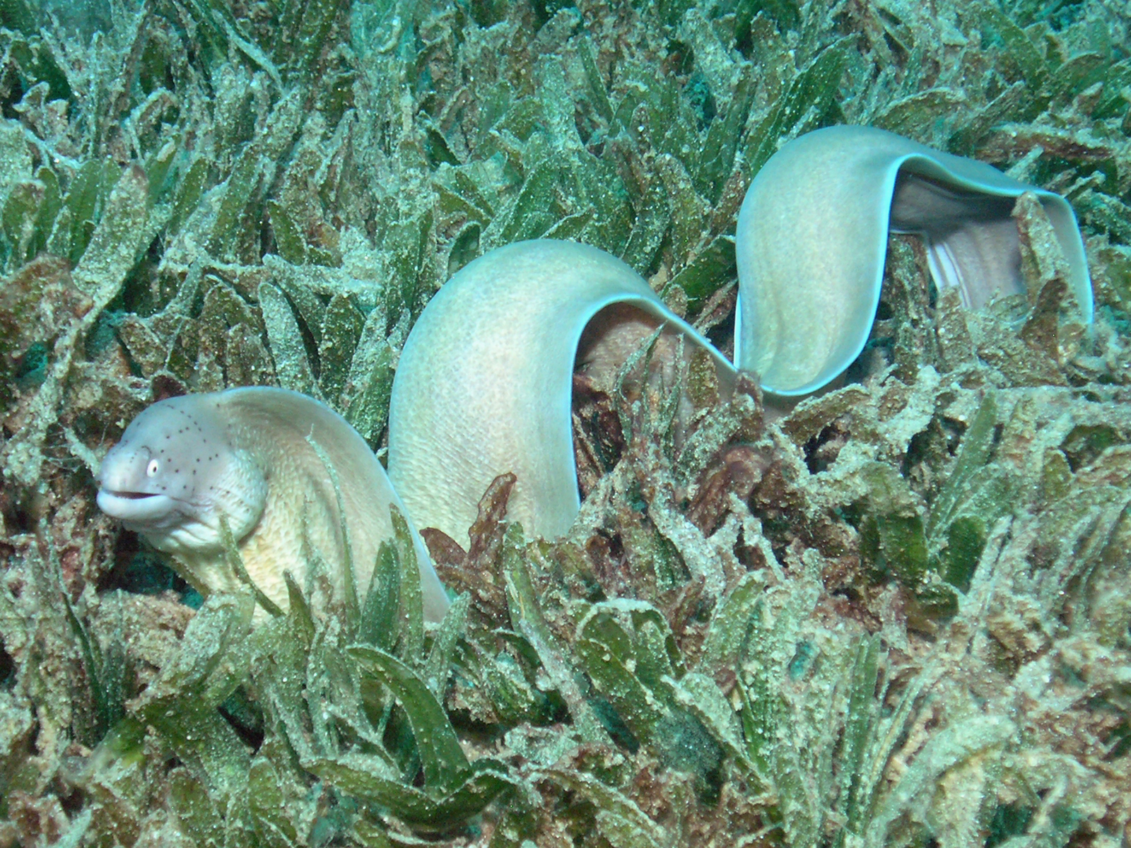 A Peppered Moray in the sea grass, Aqaba Marine Park. You are free to use this image providing you include a credit link to